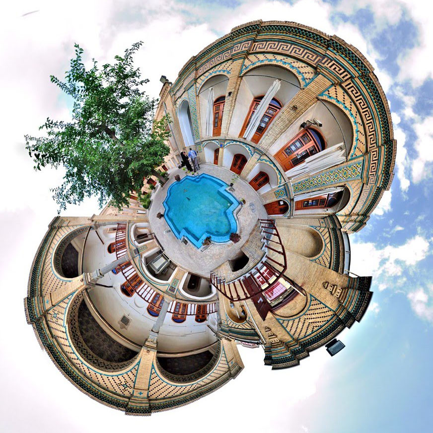 Arak Craft Museum or Hasanpour House in Arak.